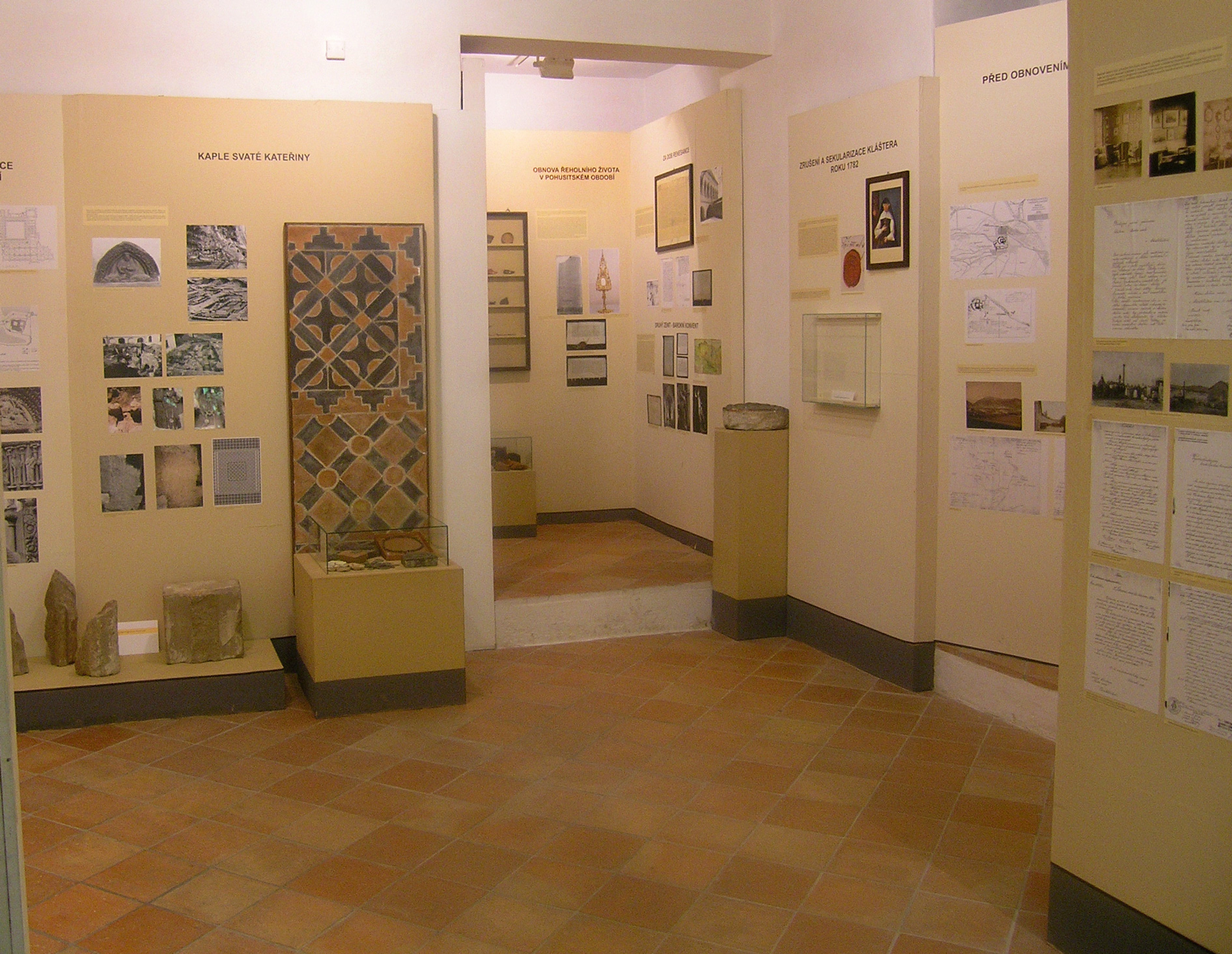 The Podhorácké Museum in Předklášteří, Czech Republic. History and present of Porta coeli convent exposition.